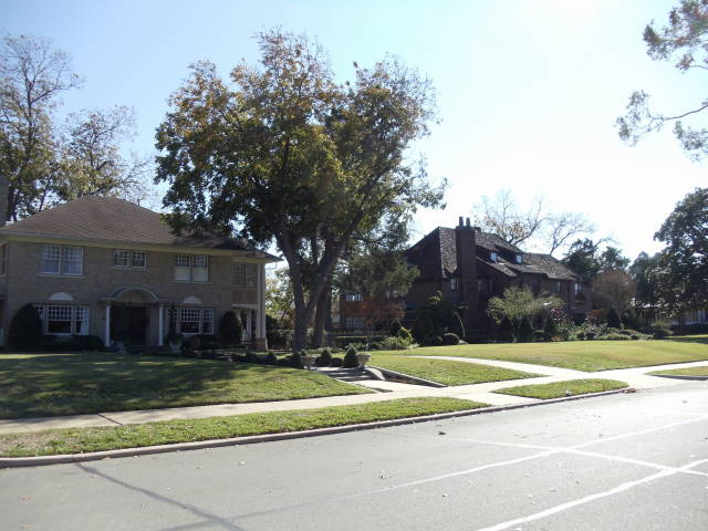 Swiss Avenue Historic District